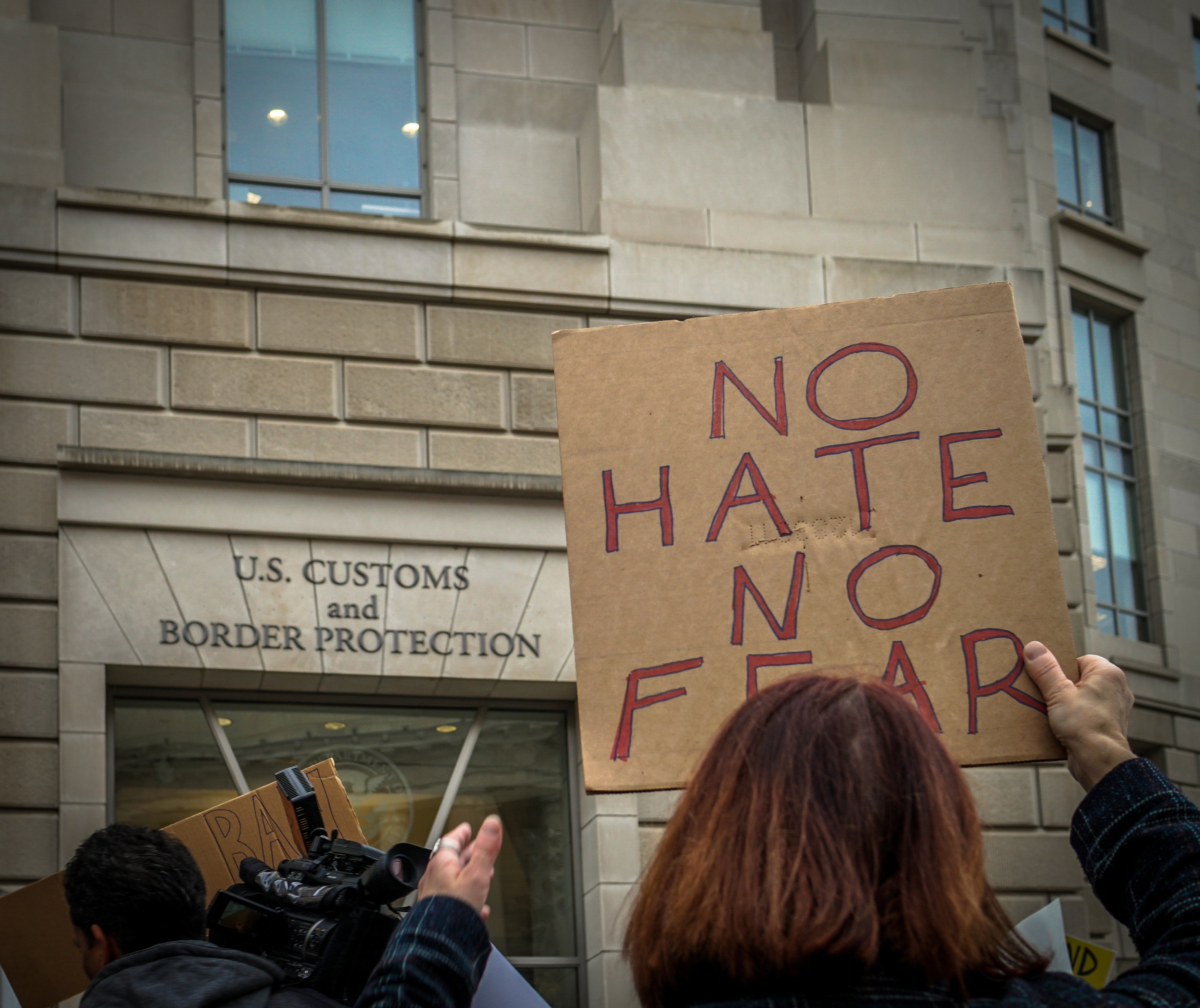 "No Hate No Fear": I feel pity, tears, but no hate - I could walk amongst them with no fear, no judgment.